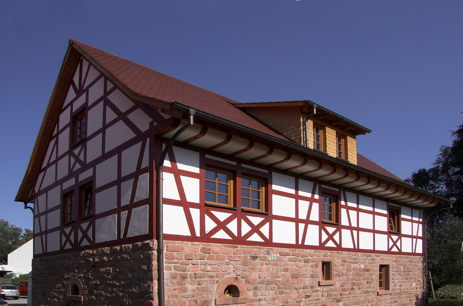 The Einhaus, Wald-Michelbach Kameradaten: Canon Powershot s70, for the rest see exif-data